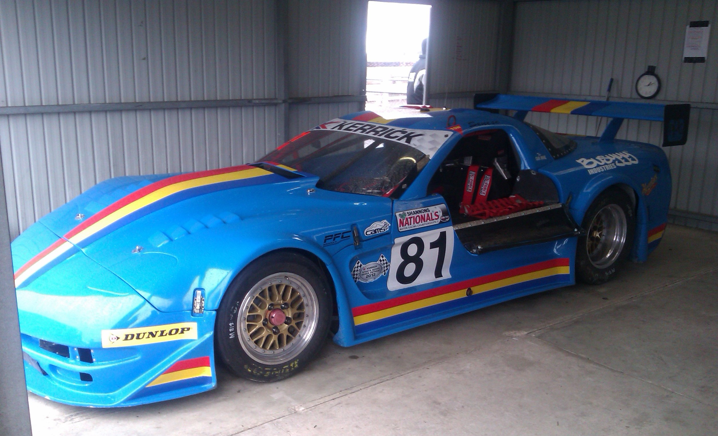 The Chevrolet Corvette of Charlie Senese. The car is shown at Mallala Motor Sport Park where it was competing in Round 2 of the 2013 Kerrick Sports Sedan Series.